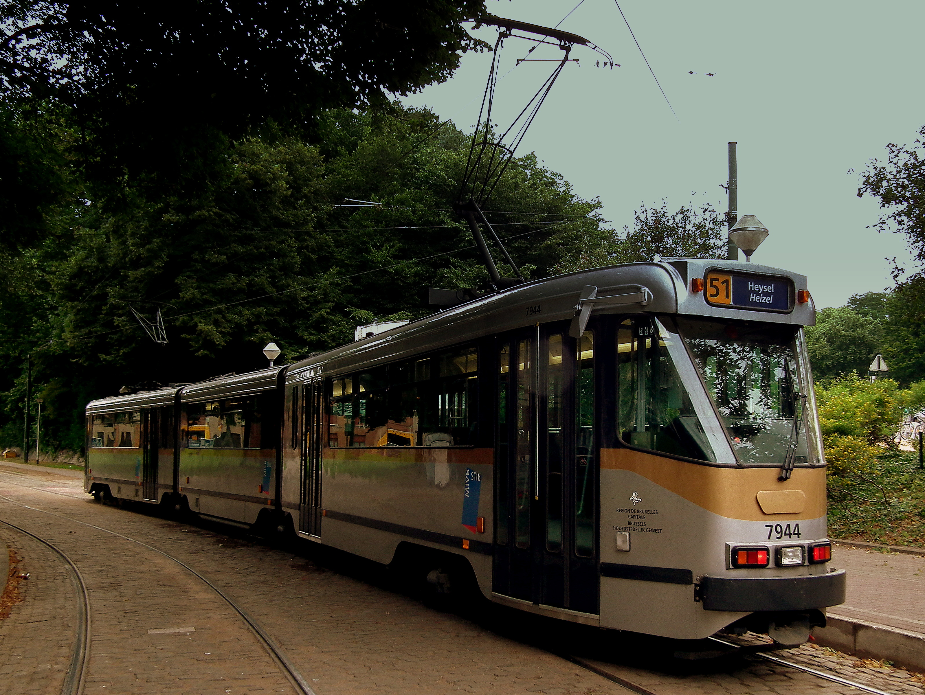 MIVB LINE51 TRAM AT HEYSEL BRUSSEL BELGIUM JULY 2012